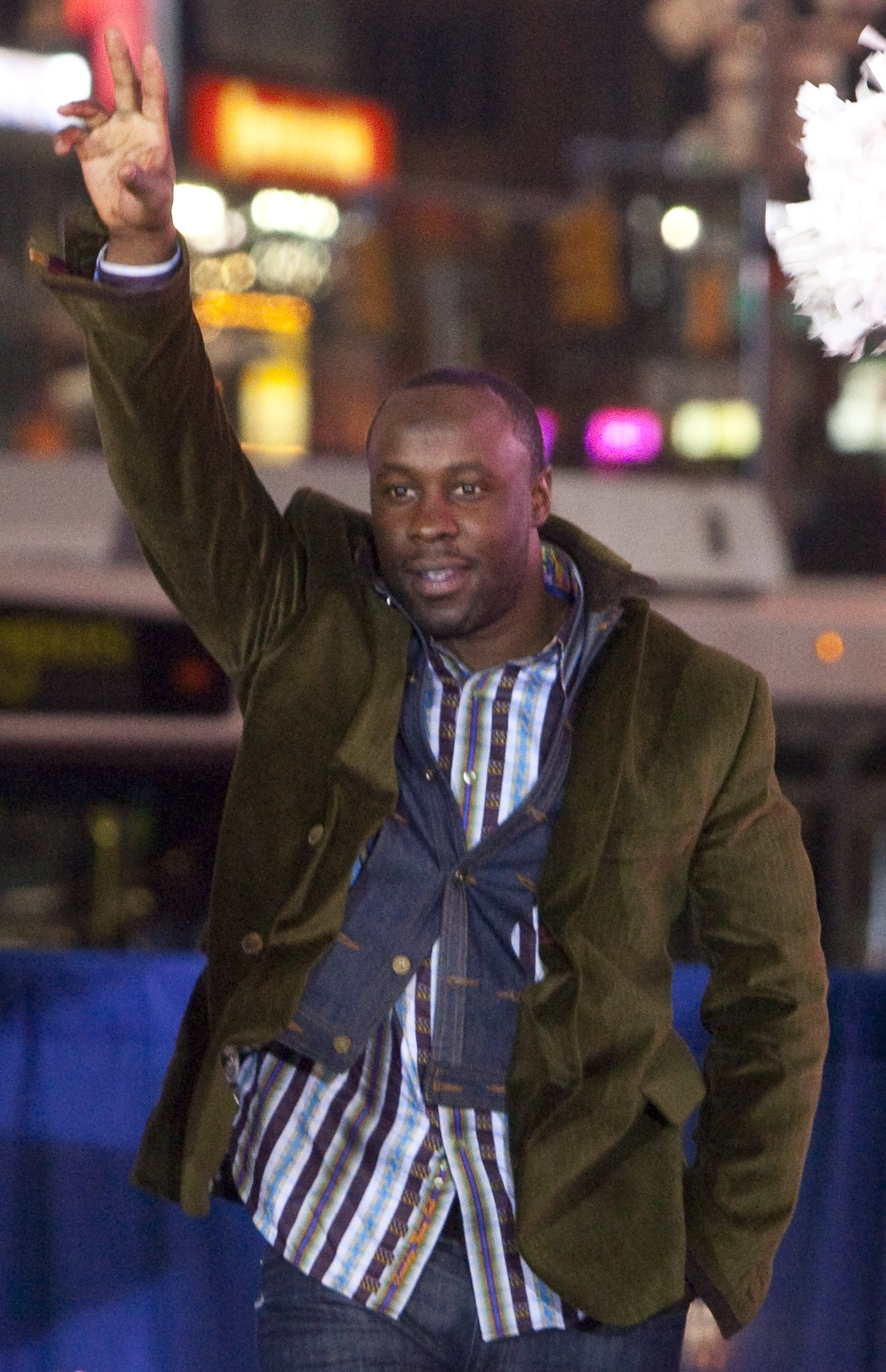 Leon Washington at Times Square pep rally prior to 2010 AFC Championship